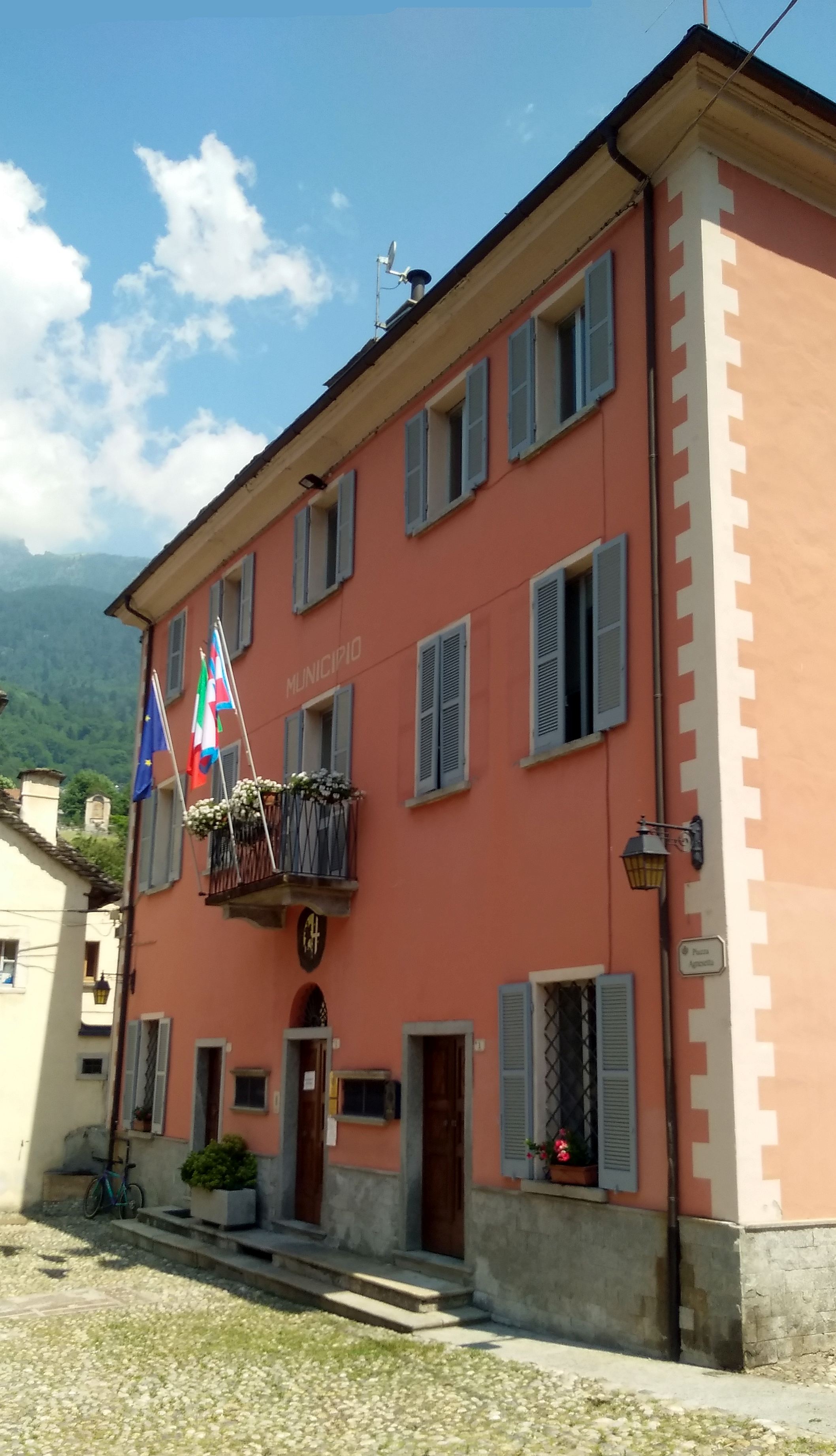 Varzo (VB, Italy): its town hall